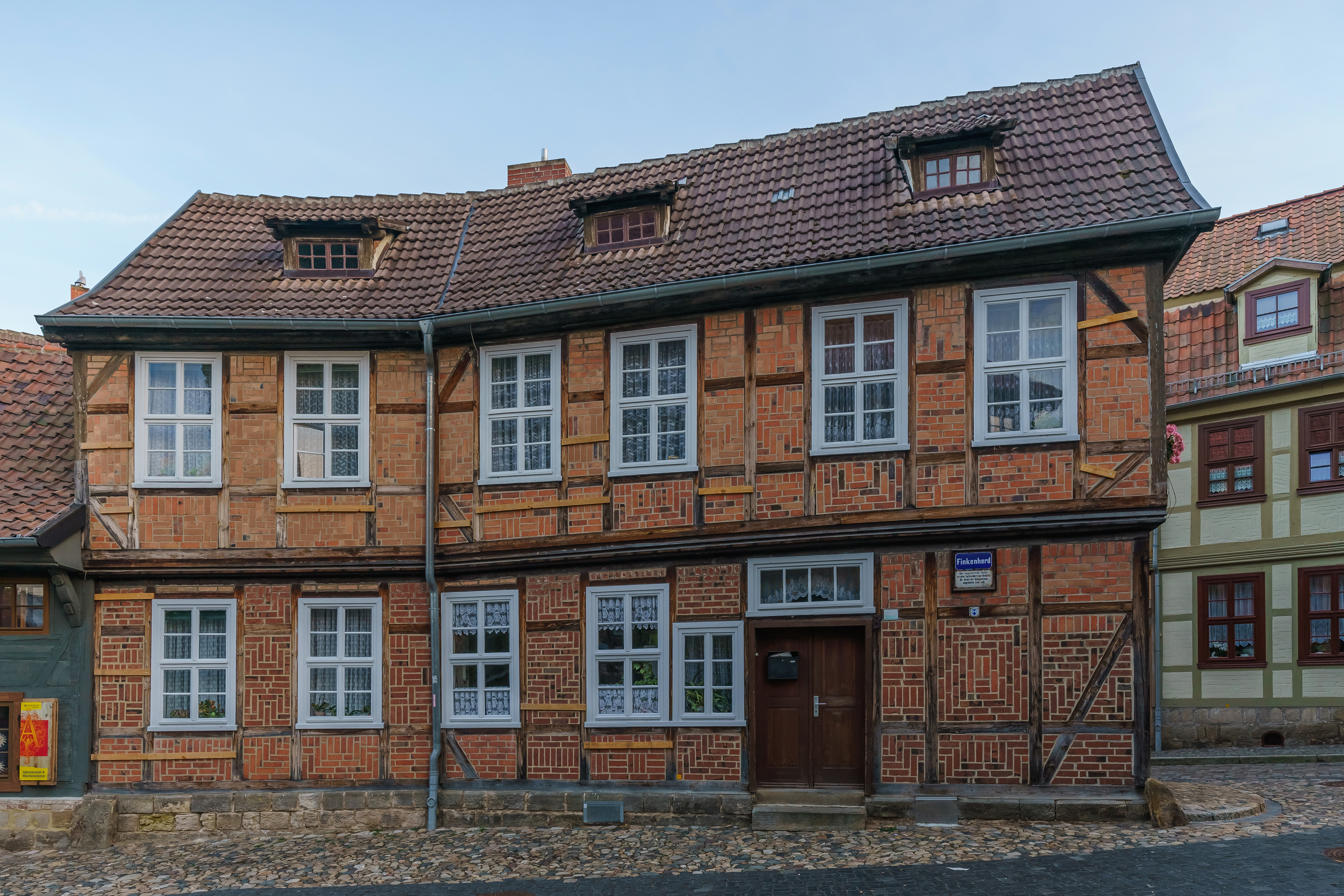 Old Town in Quedlinburg, Germany